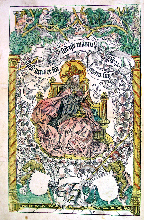 A full page picture from Nuremberg Chronicle. God creating the world.